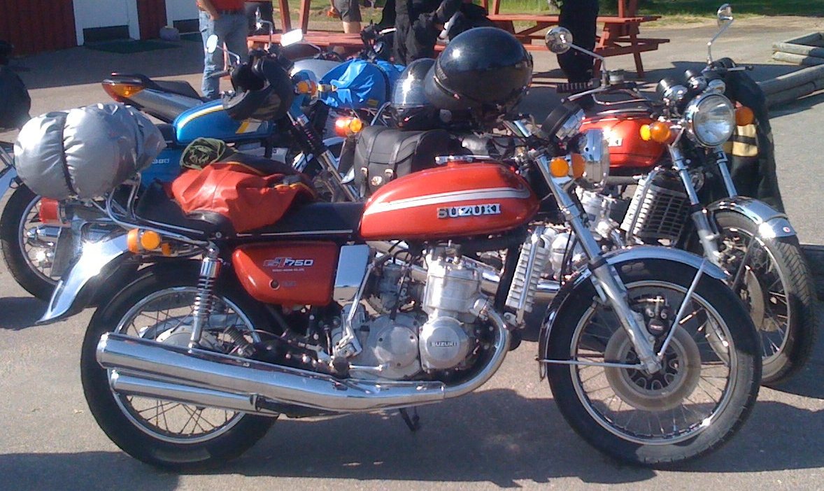 Gathering at the camping site - Suzuki GT750